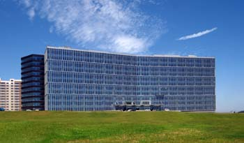 Ascendas IT Park of Dalian Software Park Phase 2 (Dalian, China)